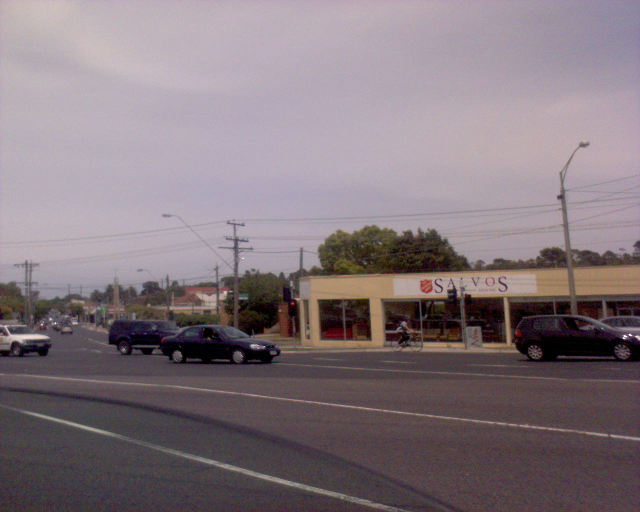 The Chatman-Nepean Hwy Intersection.